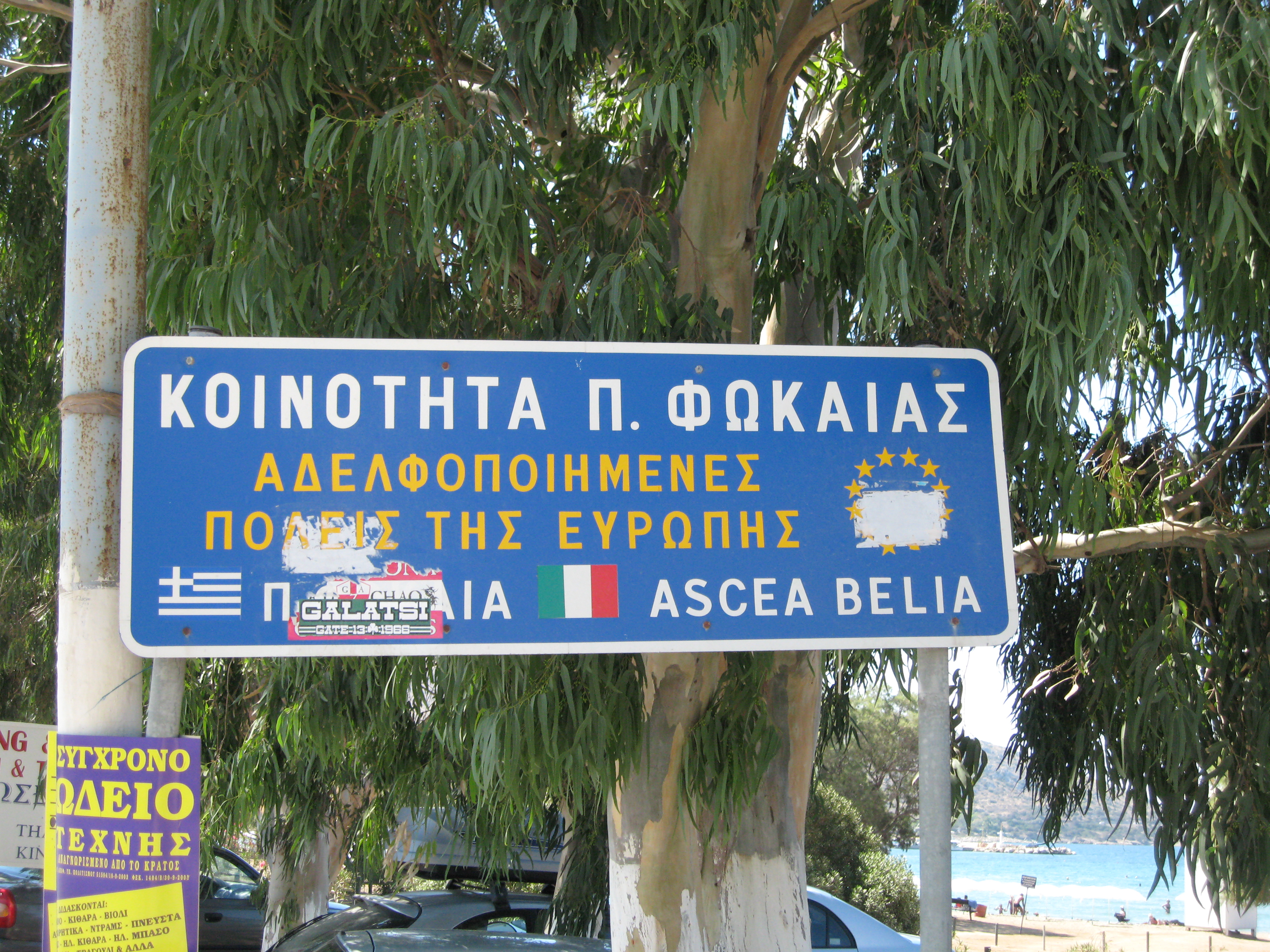 Palaia Phokaia (Attic), not to be confused with Phocaea in Turkey. Town twinning with Ascea-Velia (Italy) and Palaia Fokaia (Attica, Greece)